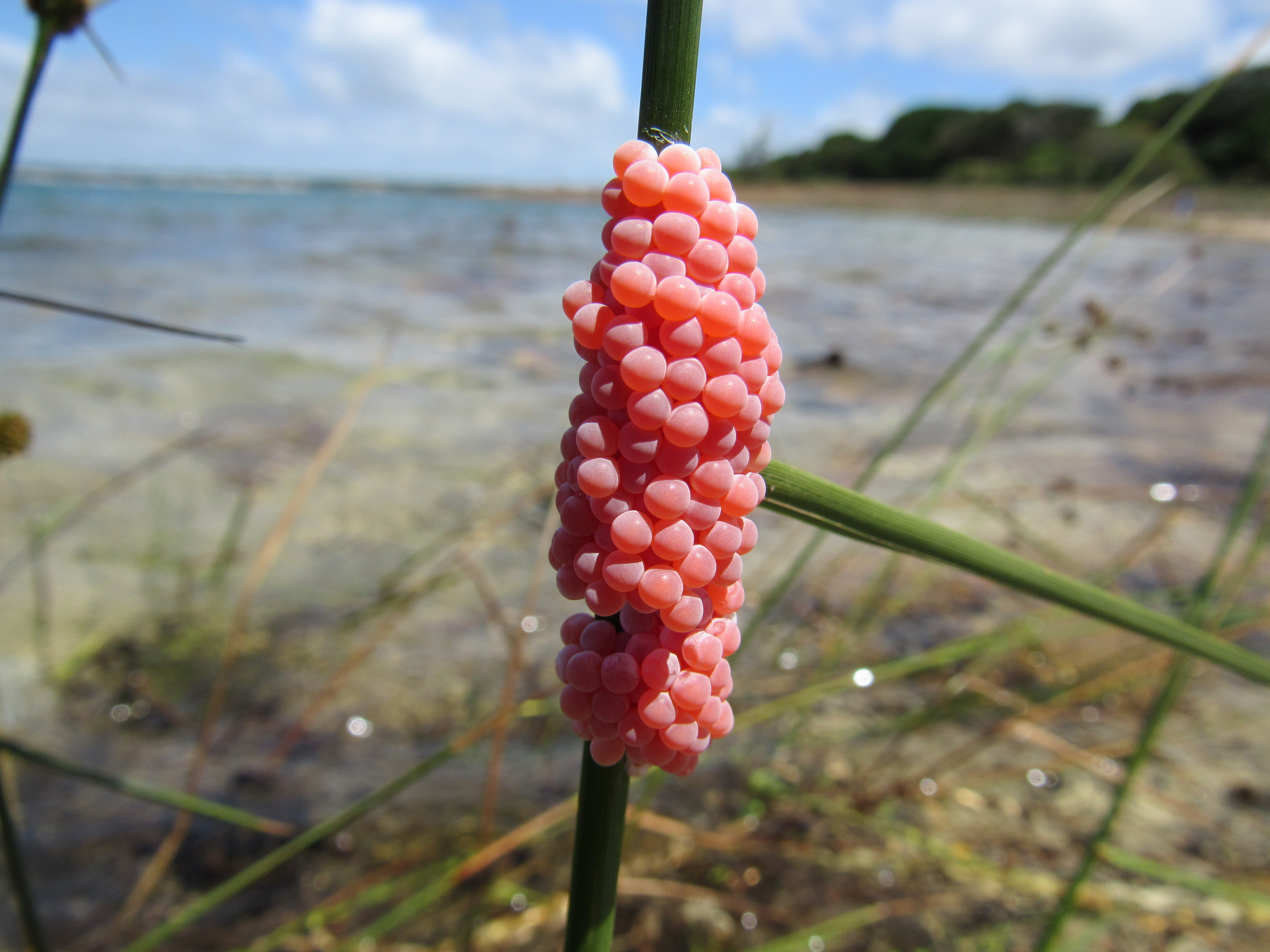 Picture of snail eggs taken at Bonfim lagoon (Nísia Floresta-RN)